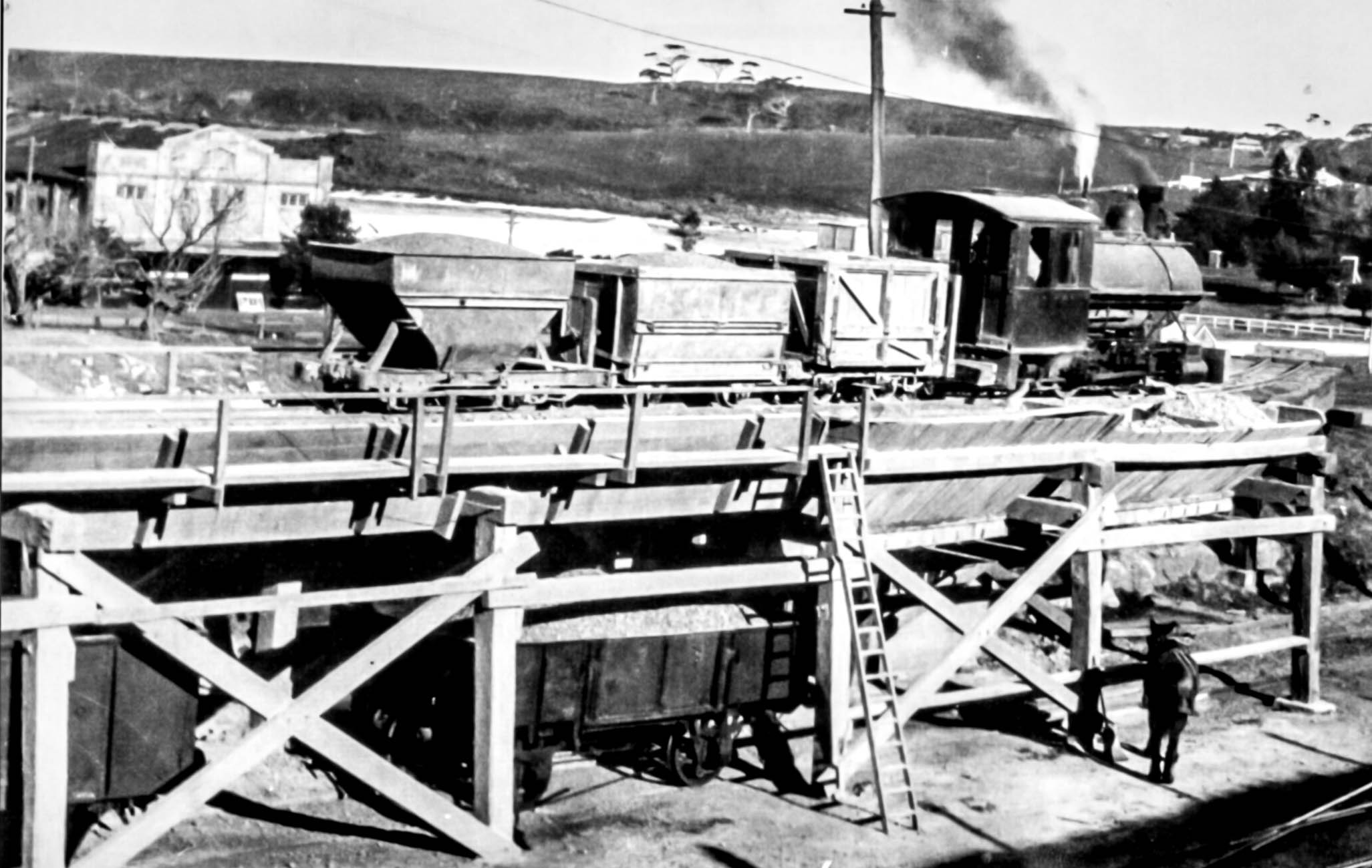 NSW Kiama Wharf